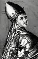 Lithograph of Pope Benedict IX, made before 1923